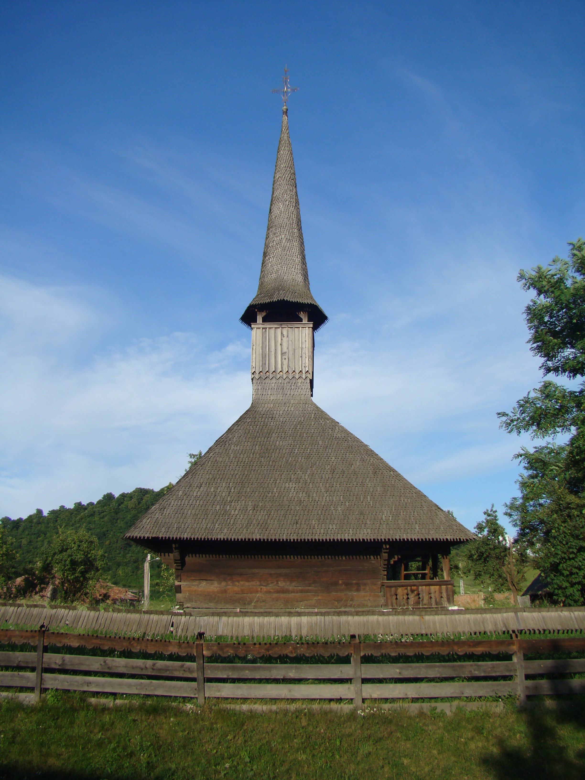 Wooden church in Sărata, Bistrița-Năsăud county